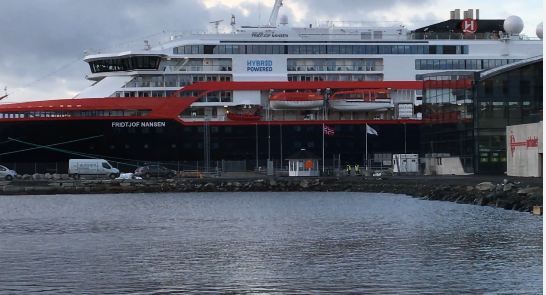 The Ship is a near-identical twin to MS Roald Amundsen, the worlds first hybrid electric expedition/cruise ship, here seen at the port of Trondheim.